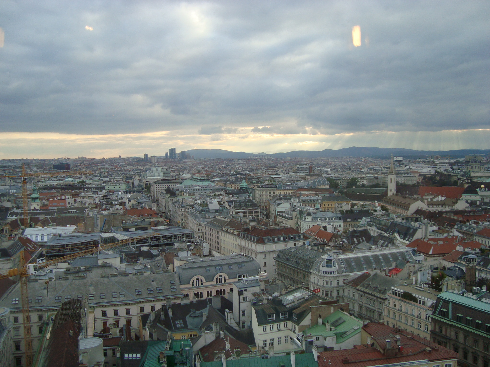 View from St. Stephen's Cathedral, Vienna